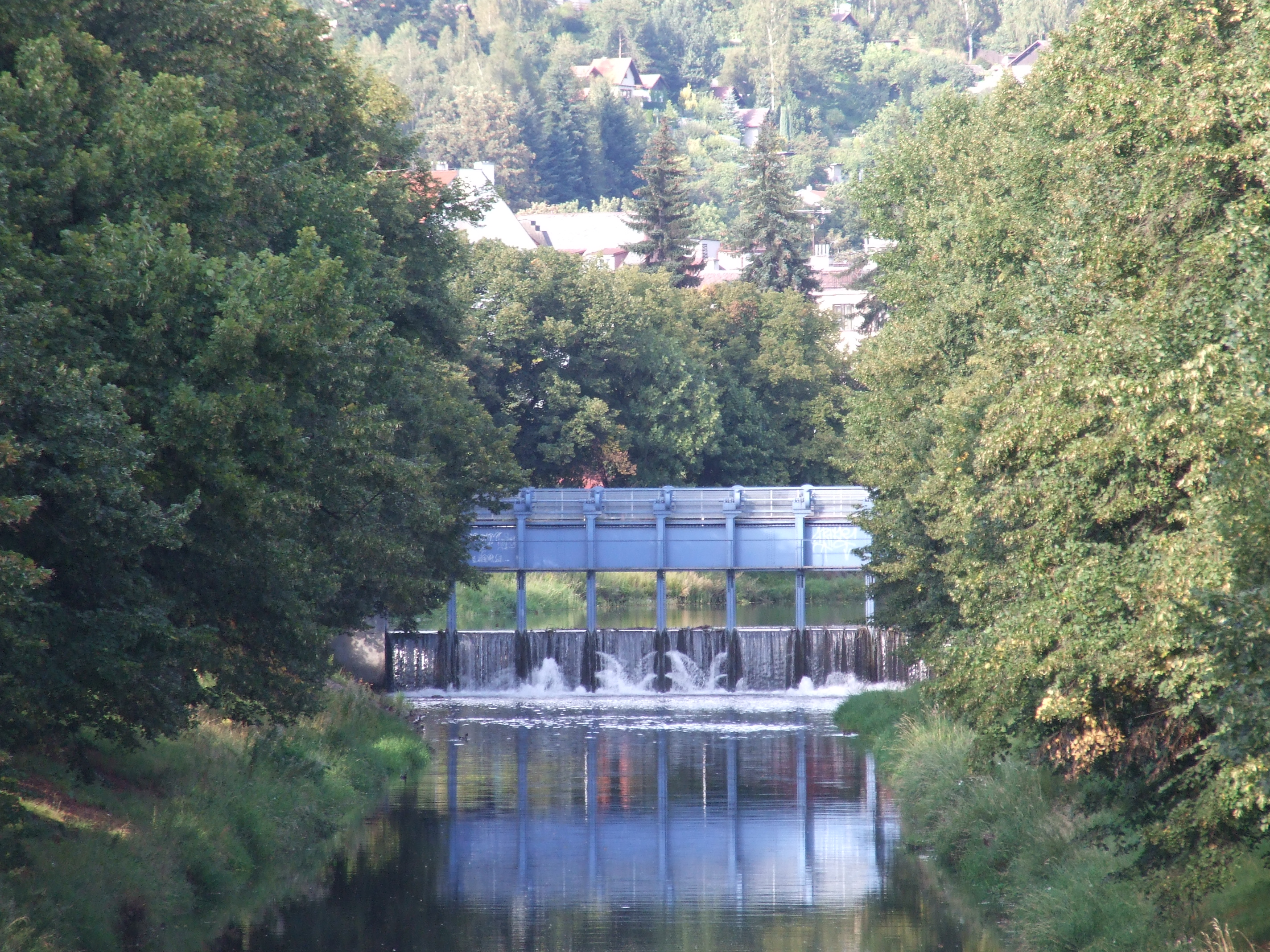 Metuje river